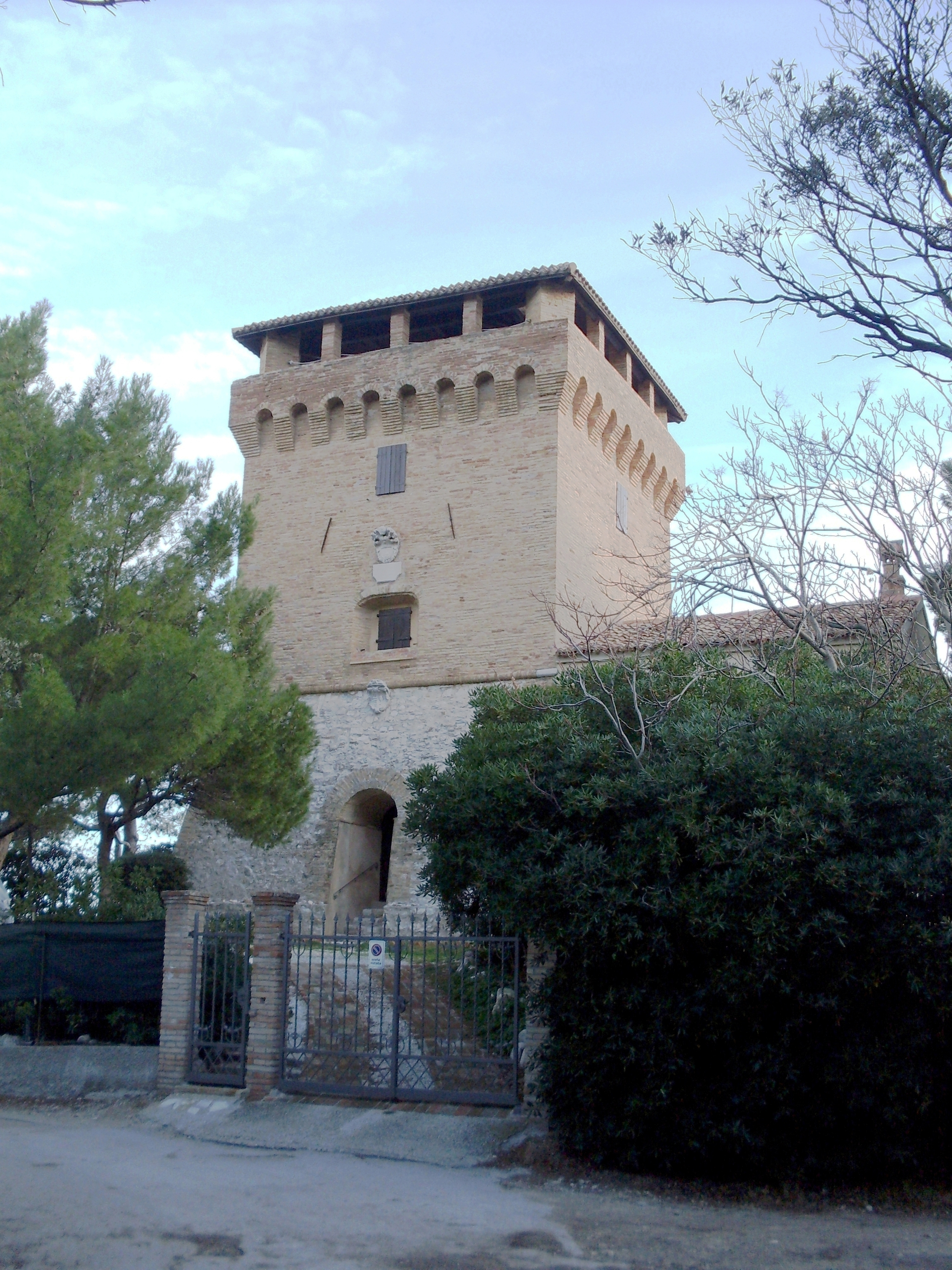 Italy Ancona Portonovo - tower Clementina